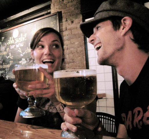 Keeley & Maura Davis enjoying some beer together after a long day's work of jammin'.